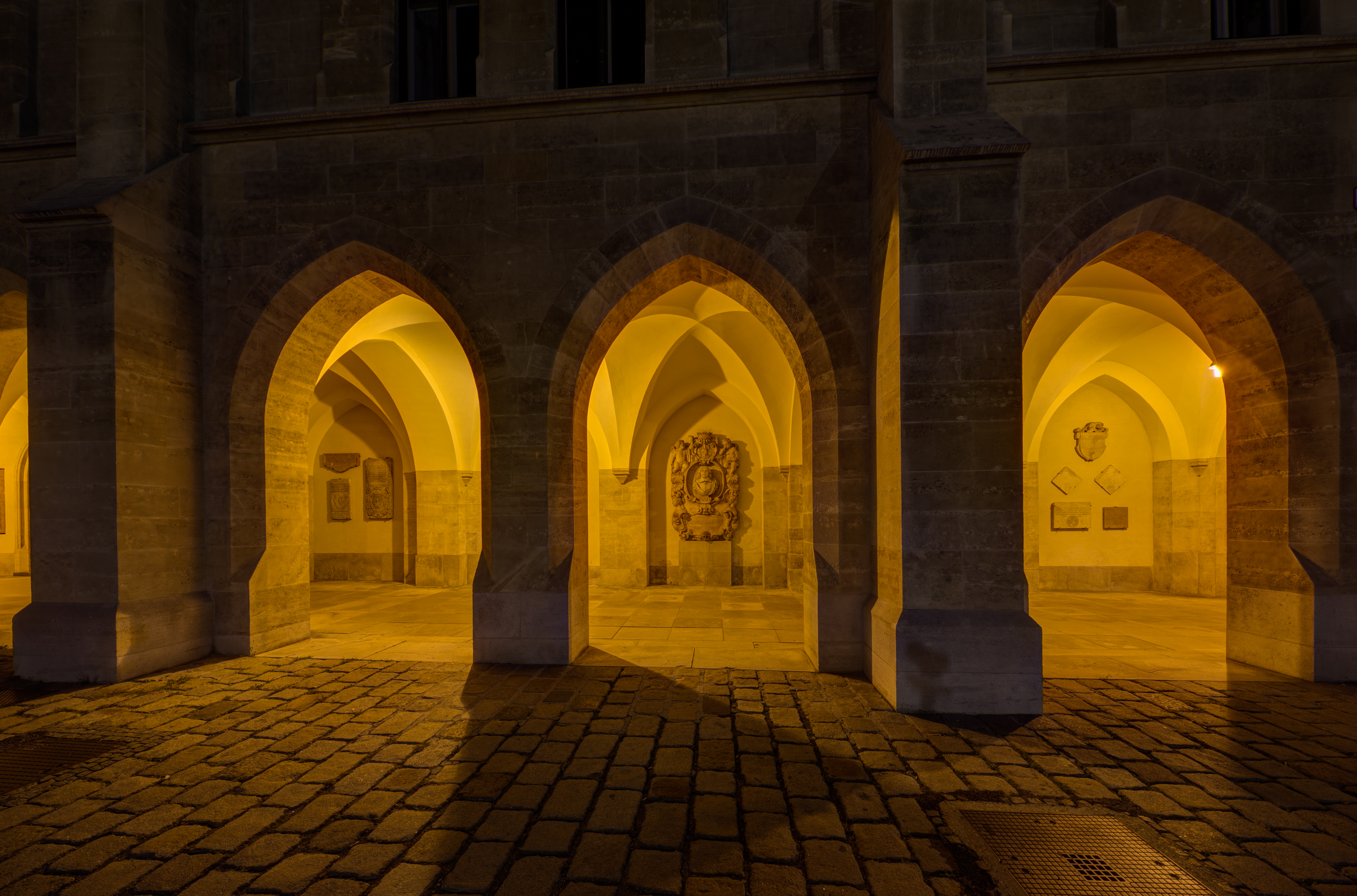 Minoriten church, Arkades at the Minoriten square (with Epitaphs)